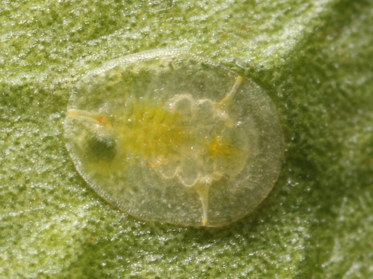 Larva of the whitefly species Dialeurodes citri, found on a citrus leaf in Berkeley, California.